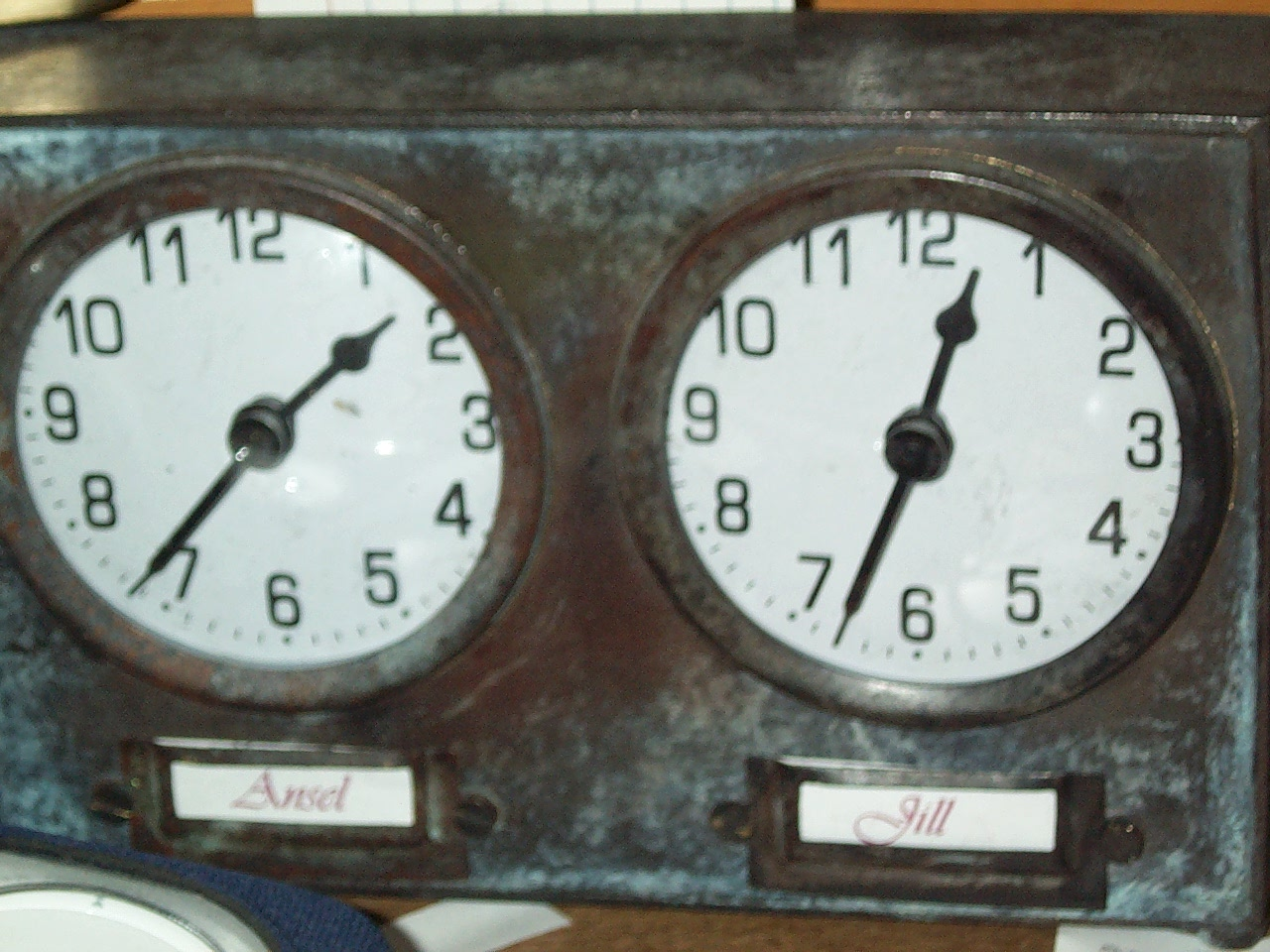 Double Clocks